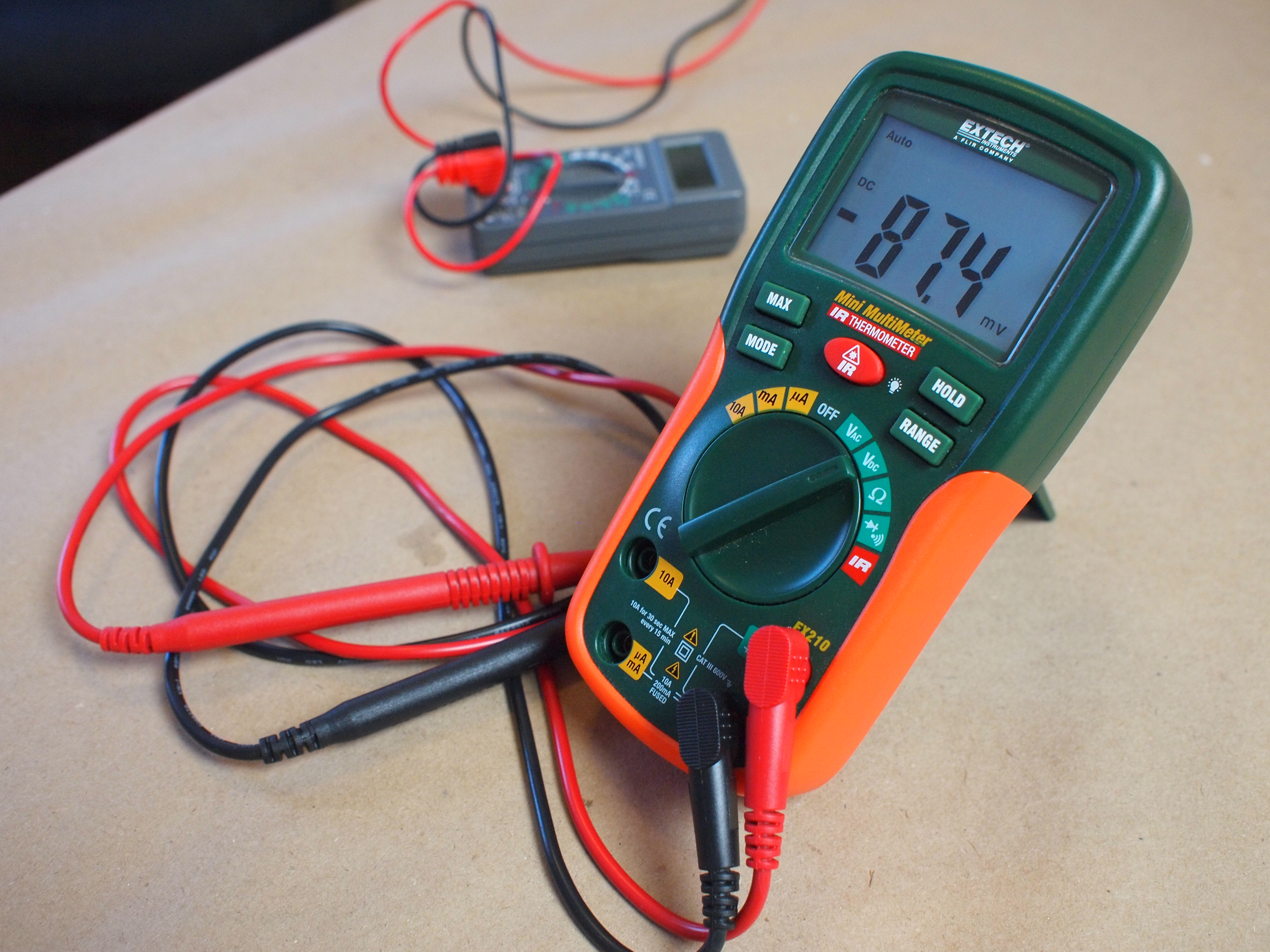 Review on MAKE